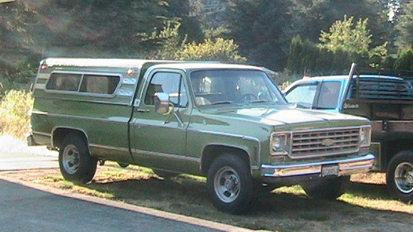 1975-1976 Chevy C/K pickup Arthur Hu Kirkland WA 2006